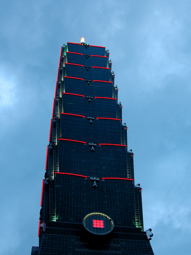 Taipei 101 at dusk. New Year's Eve, 2006-2007. (Alton Thompson) [edit]